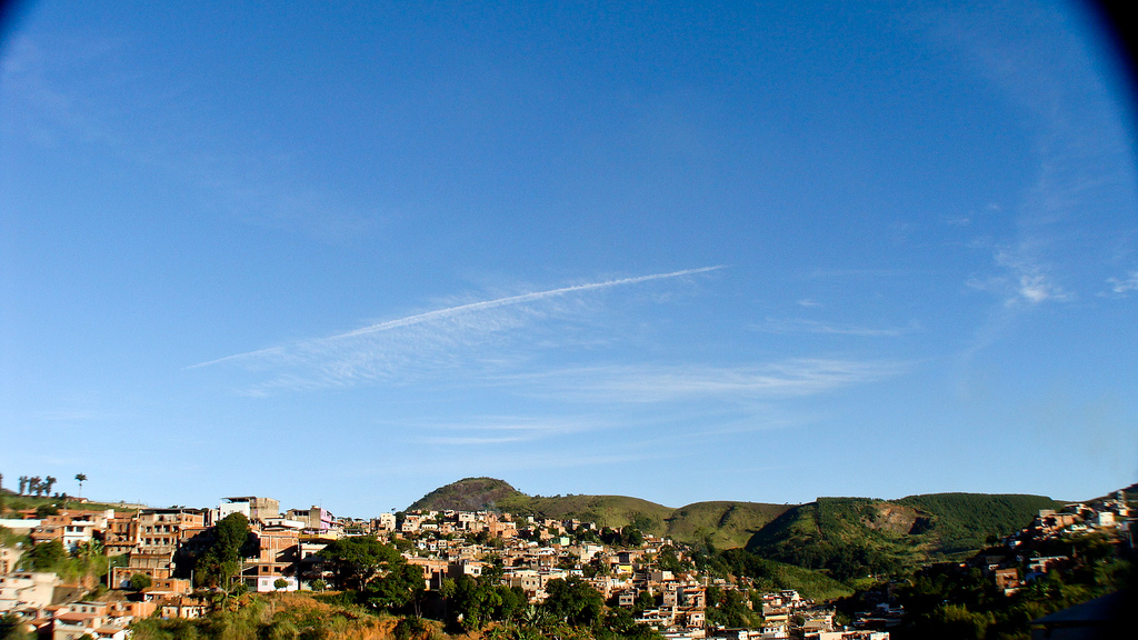 Houses in hills of Caratinga, Minas Gerais, Brazil.